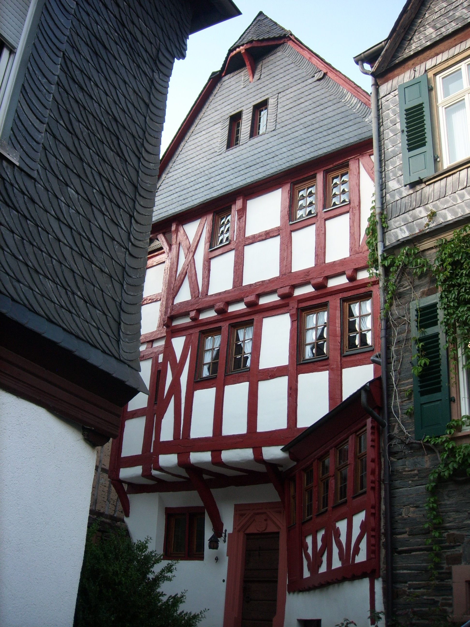 Typisch vakwerkhuis in Enkirch (Foto Ruben A. Koman, 2011))